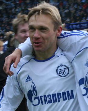 Alexandr Gorshkov